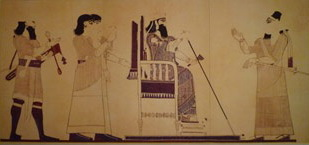 a historical photo